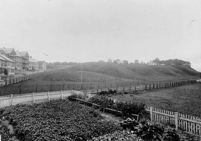 The road up to the Gløshaugen plateau, before NTH, The Technical University of Norway was built. Probably around 1900.